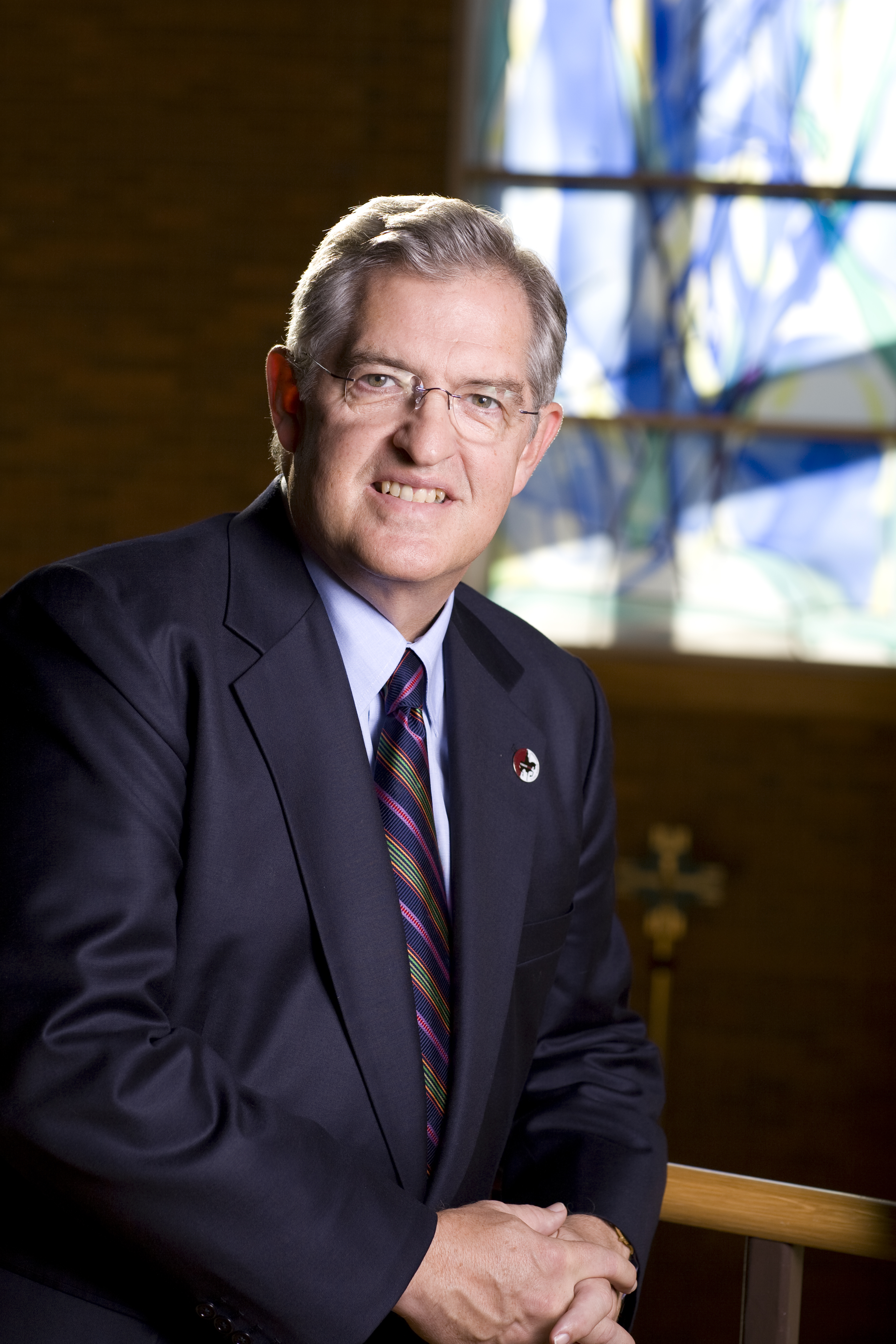 A portrait of the current President of Bellarmine University, Dr. Joseph J. McGowan.